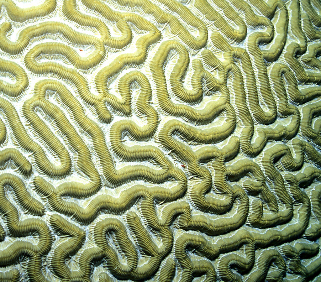 Macro of a large boulder of Symmetrical Brain Coral (Diplora strigosa). Curaçao. Not colorful, but the pattern looks neat.Brain Coral